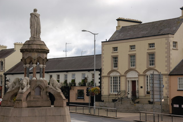 Crozier monument, Banbridge (Grade B+ listed). Captain Francis Rawdon Moira Crozier, the son of a local solicitor, joined the navy and served on Franklin’s ill-fated expedition in search of the North West passage. He was born in 1796 and died in the expedition in 1848. This monument, in Church Square, was erected in 1862 to the design of WJ Barre. His birthplace was Avonmore House (the large house on the right of the photo and Grade B+ listed building). It is now, appropriately, a solicitor’s office.